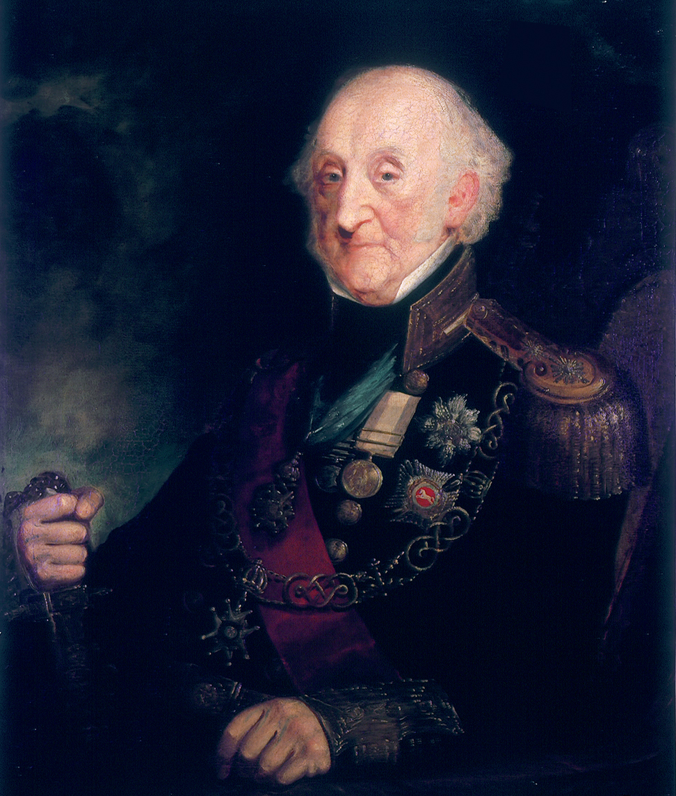 Vice-Admiral Charles Bullen (1769-1853) oil on canvas 91.5 x 71 cm signed: A. Grant 1849